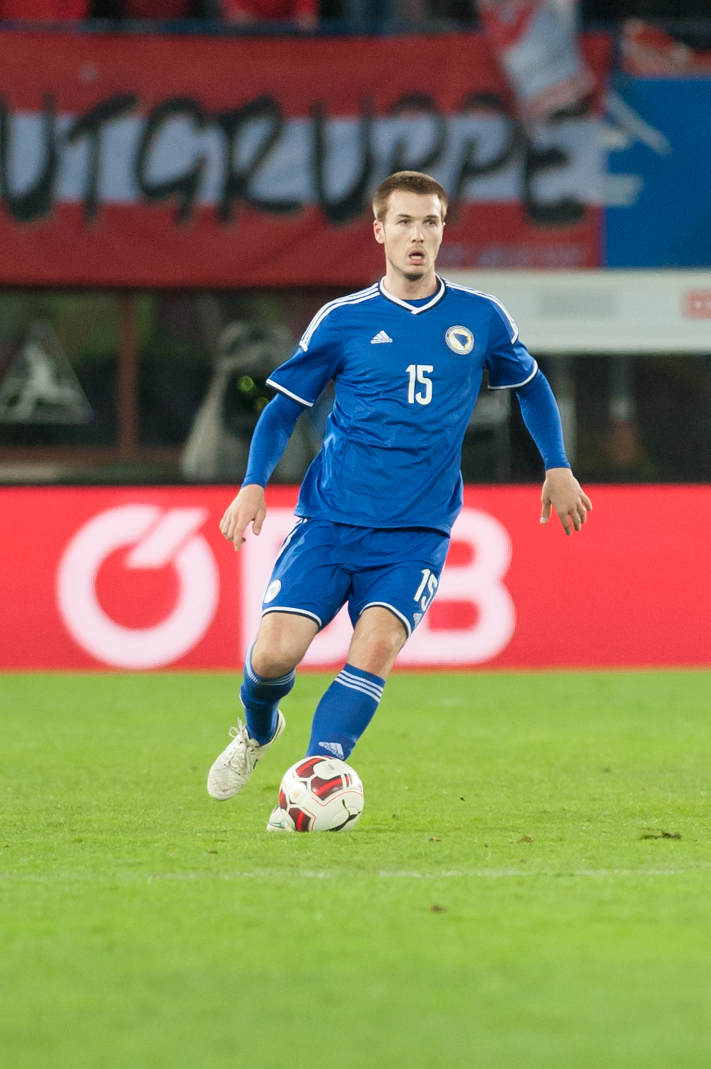 International friendly Austria vs. Bosnia and Herzegovina, 2015-03-31, Vienna